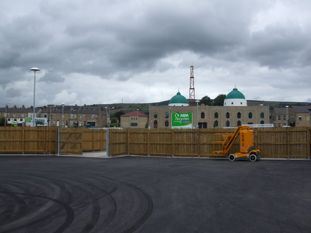 Emily Street Mosque